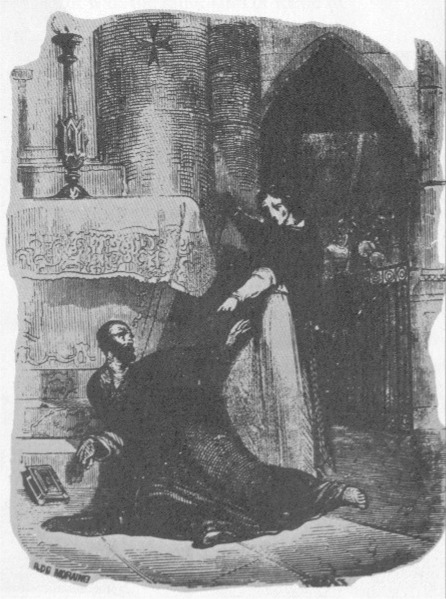 Murder of the Gran Inquisitor Pedro de Arbués by the woman he has wronged.